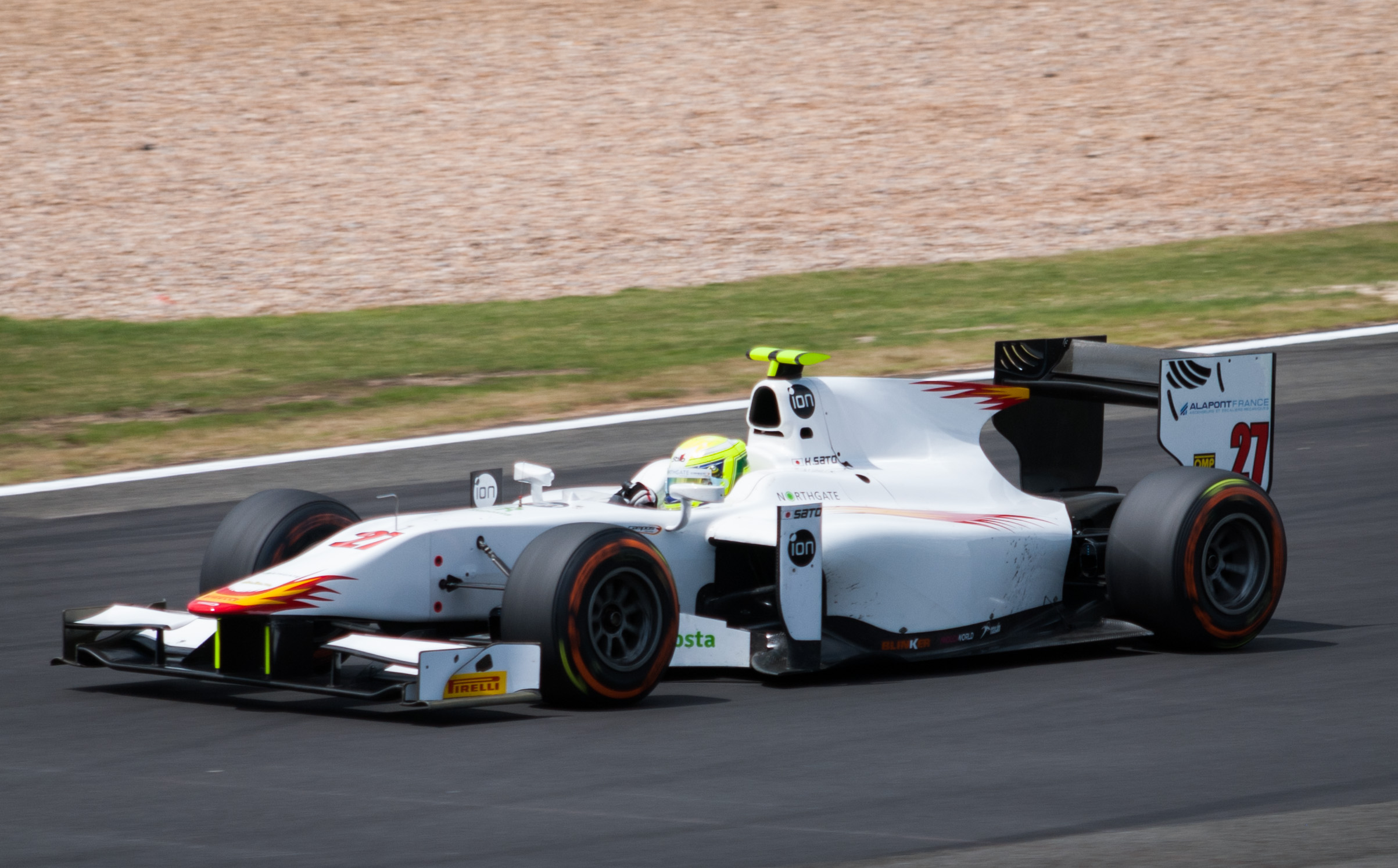 Kimiya Sato driving for the Campos Racing at Silverstone. Round 5 of the 2014 GP2 Series Championship.